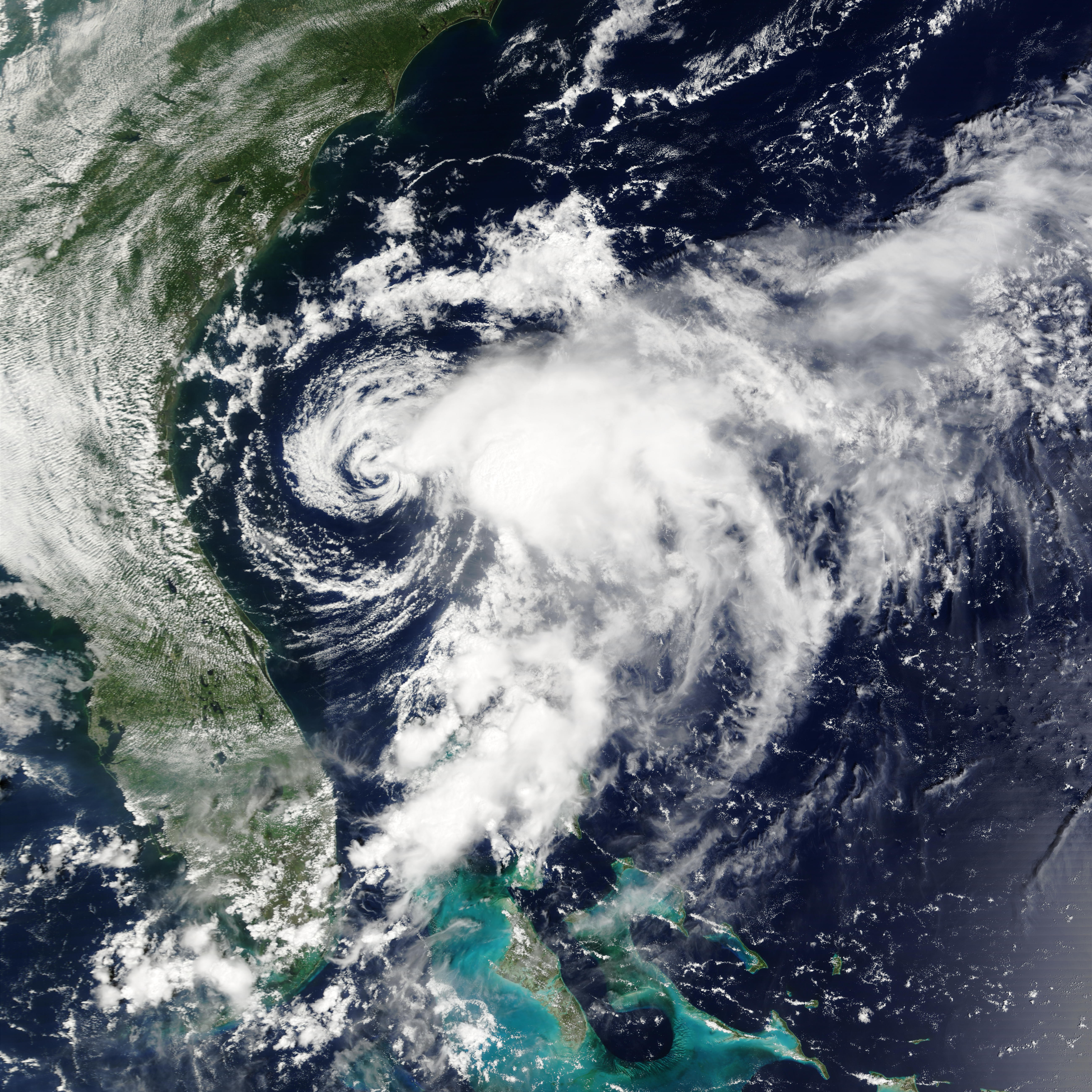 Tropical Storm Edouard is looking decidedly more organized in this true-color Moderate Resolution Imaging Spectroradiometer (MODIS) image from Tuesday, September 3, 2002, than it did the previous day. Located off the Atlantic Coast of the southeast United States, the storm briefly intensified between September 2 and 3, but by the time this image was acquired by the Terra satellite on Tuesday afternoon, the intensification had halted. Edouard is expected to weaken to tropical depression status as it moves quickly toward land. As of Tuesday evening, forecasters were predicting the storm would come ashore in northern Florida within 24 hours.